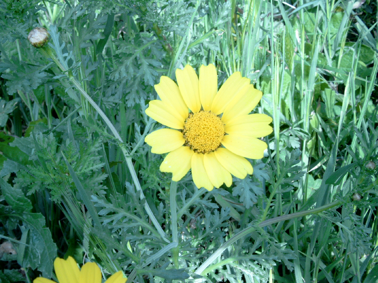 Name Chrysanthemum coronarium Familiy Asteraceae